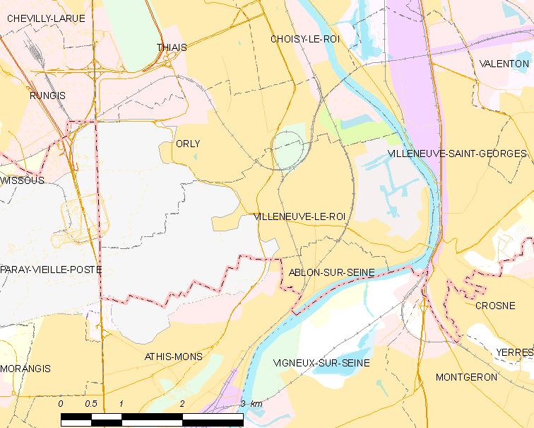 Map of French municipality Villeneuve-le-Roi